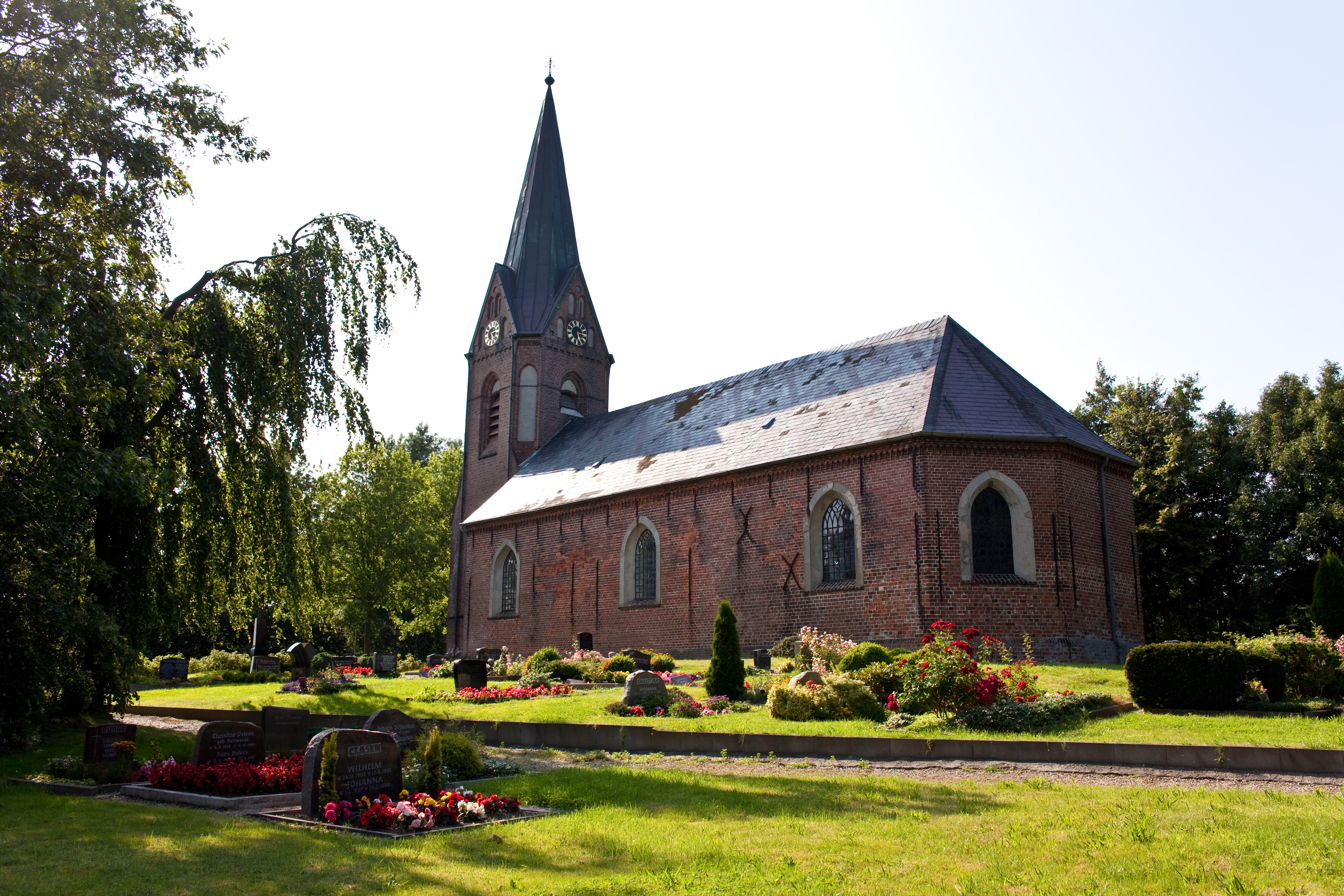 Church in Welt, Eiderstedt